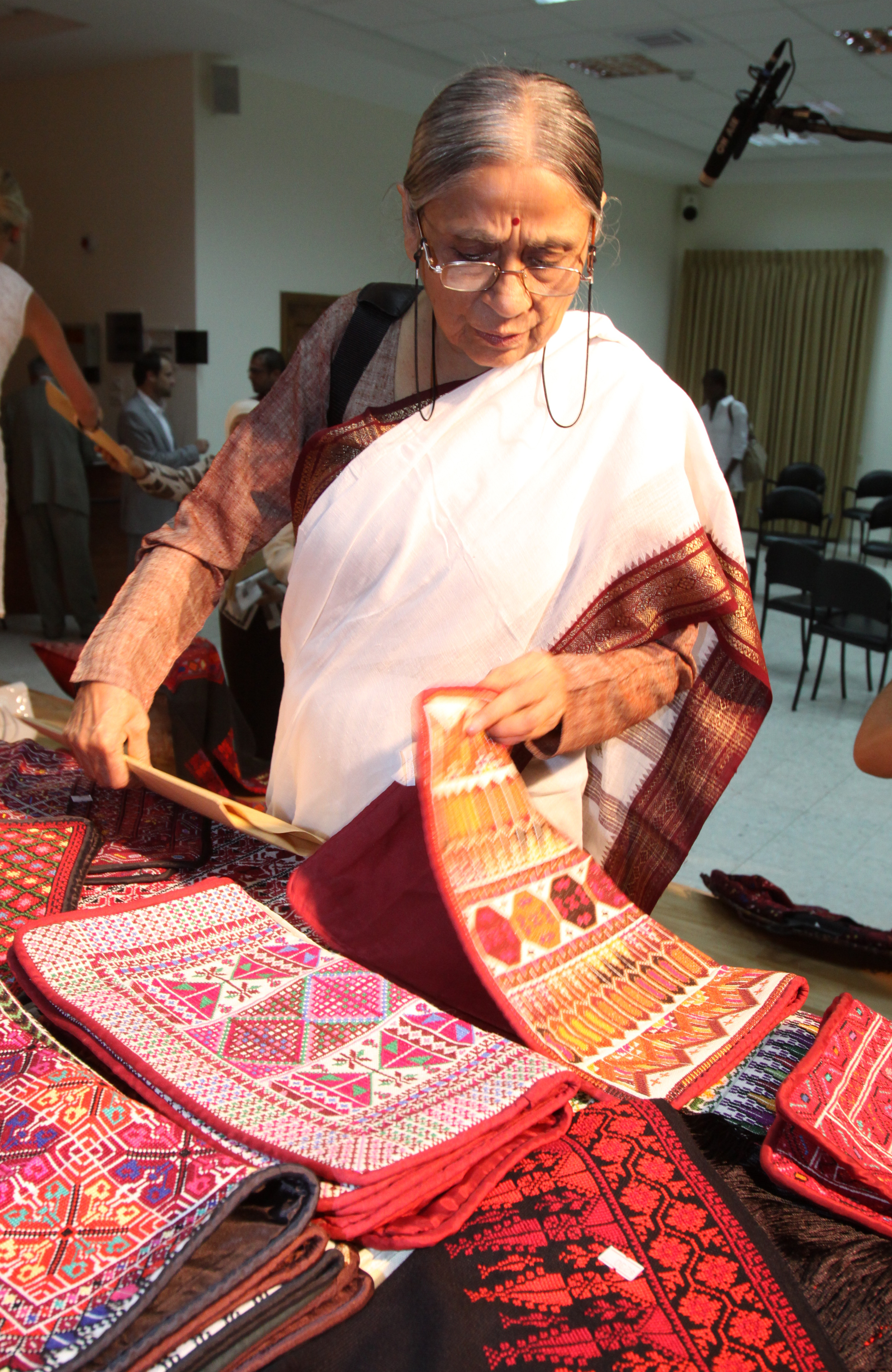 Ela Bhatt looks at the work produced by women at the Qalandia Women’s Cooperative. Photo credit: Haim Zach